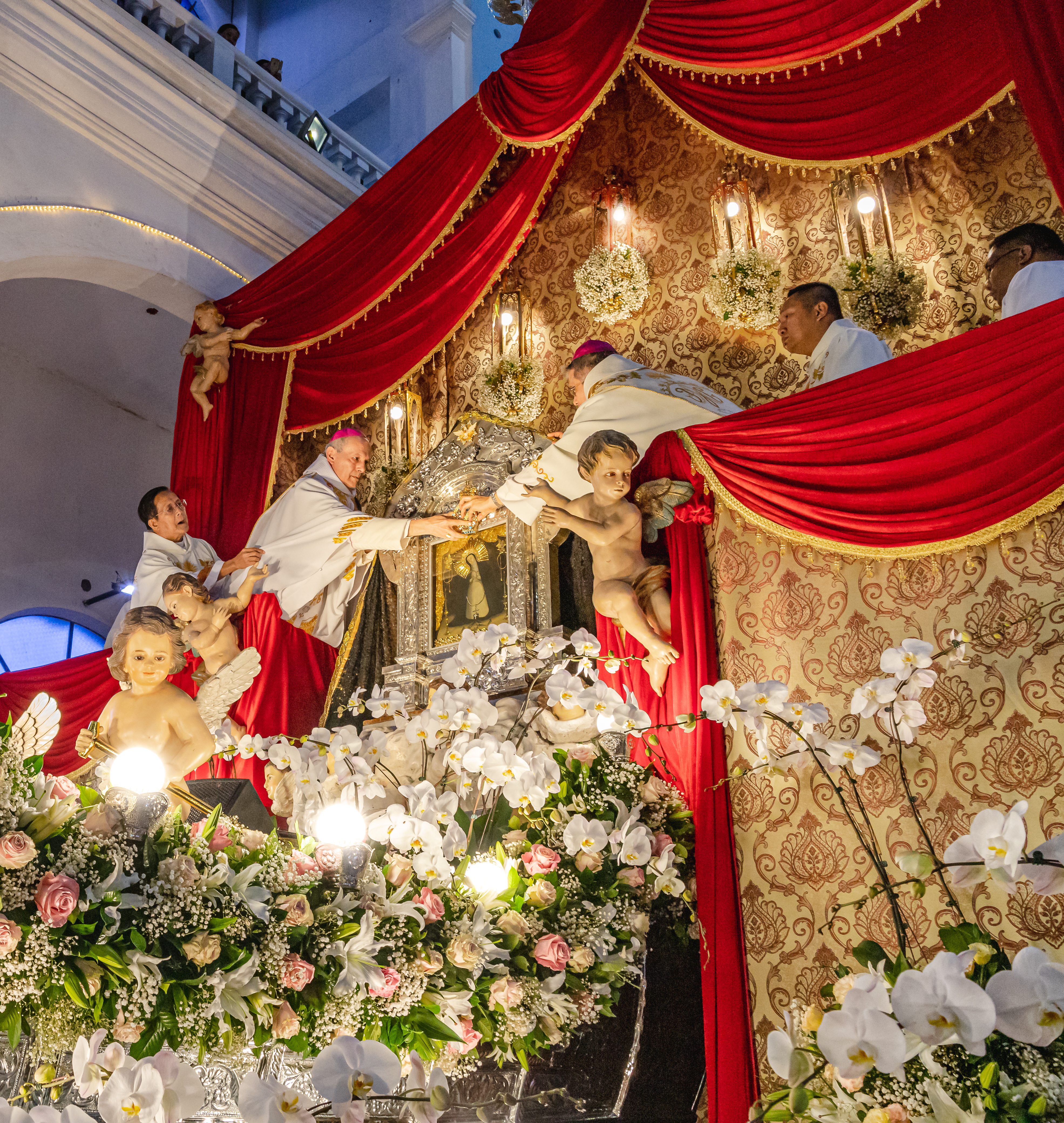 Canonical Coronation of Our Lady of Solitude of Porta Vaga 2018